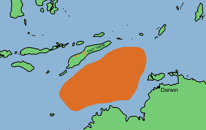 Map showing approximate location of Timor Sea